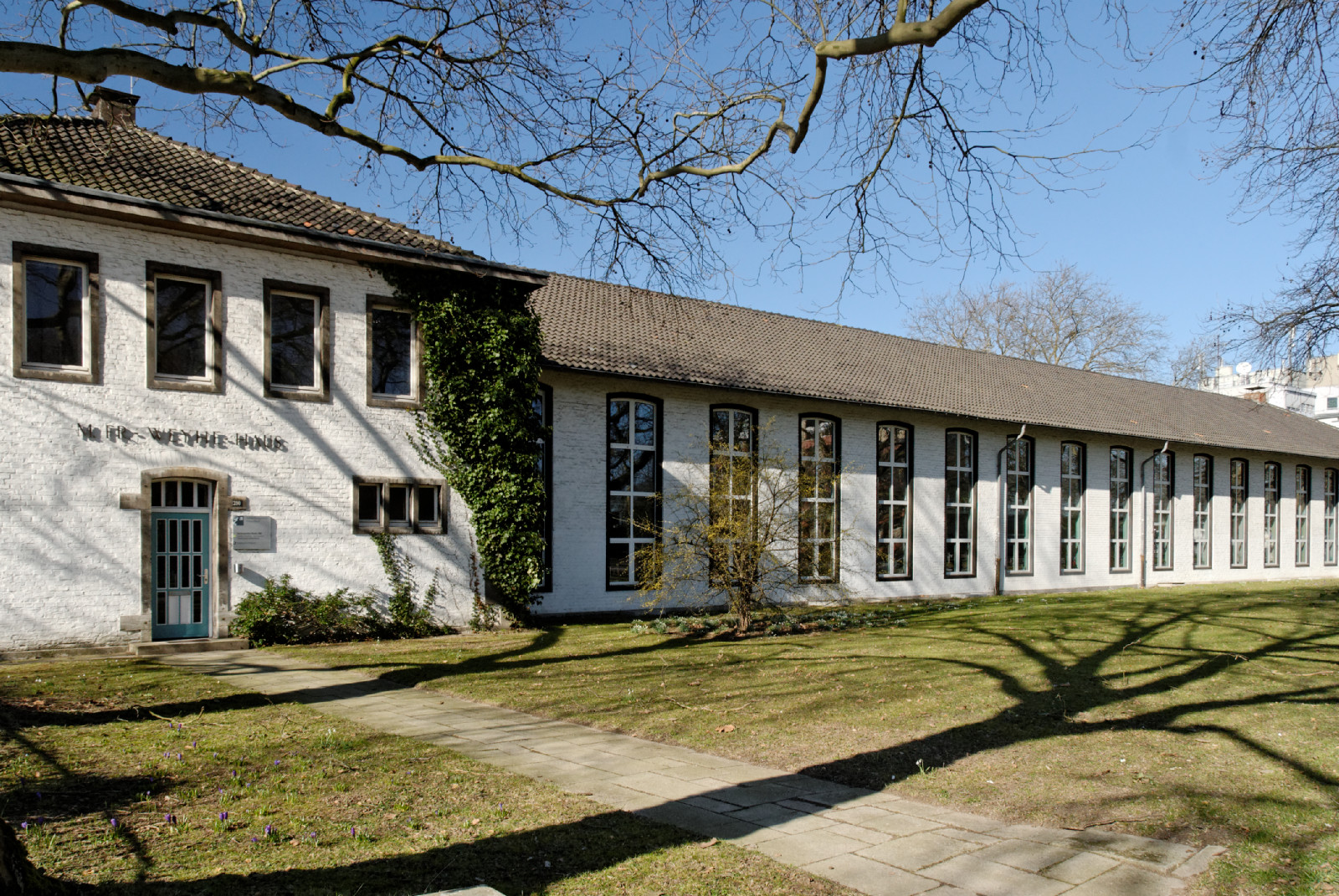 Maximilian Weyhe house, Kaiserswerther Straße 390 in Düsseldorf-Stockum, Germany This is a photograph of an architectural monument.